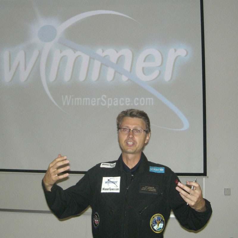 Per Wimmer talking to kids at Dalmatian Space Summer ( in Split, Croatia